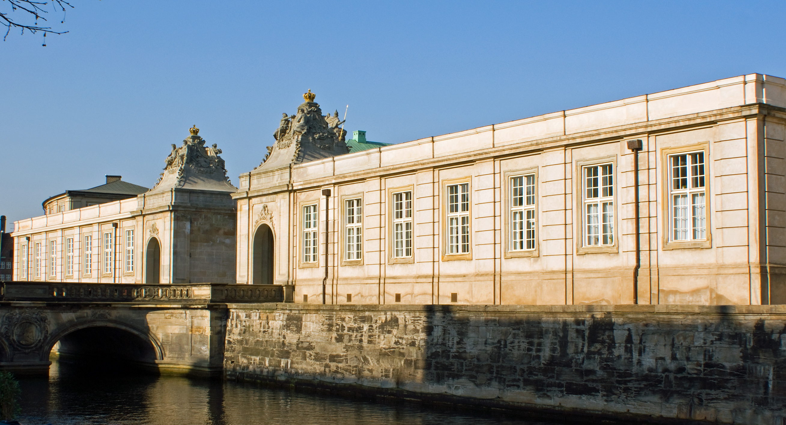 Bridge and entrance to the castle Christiansborg in Copenhagen